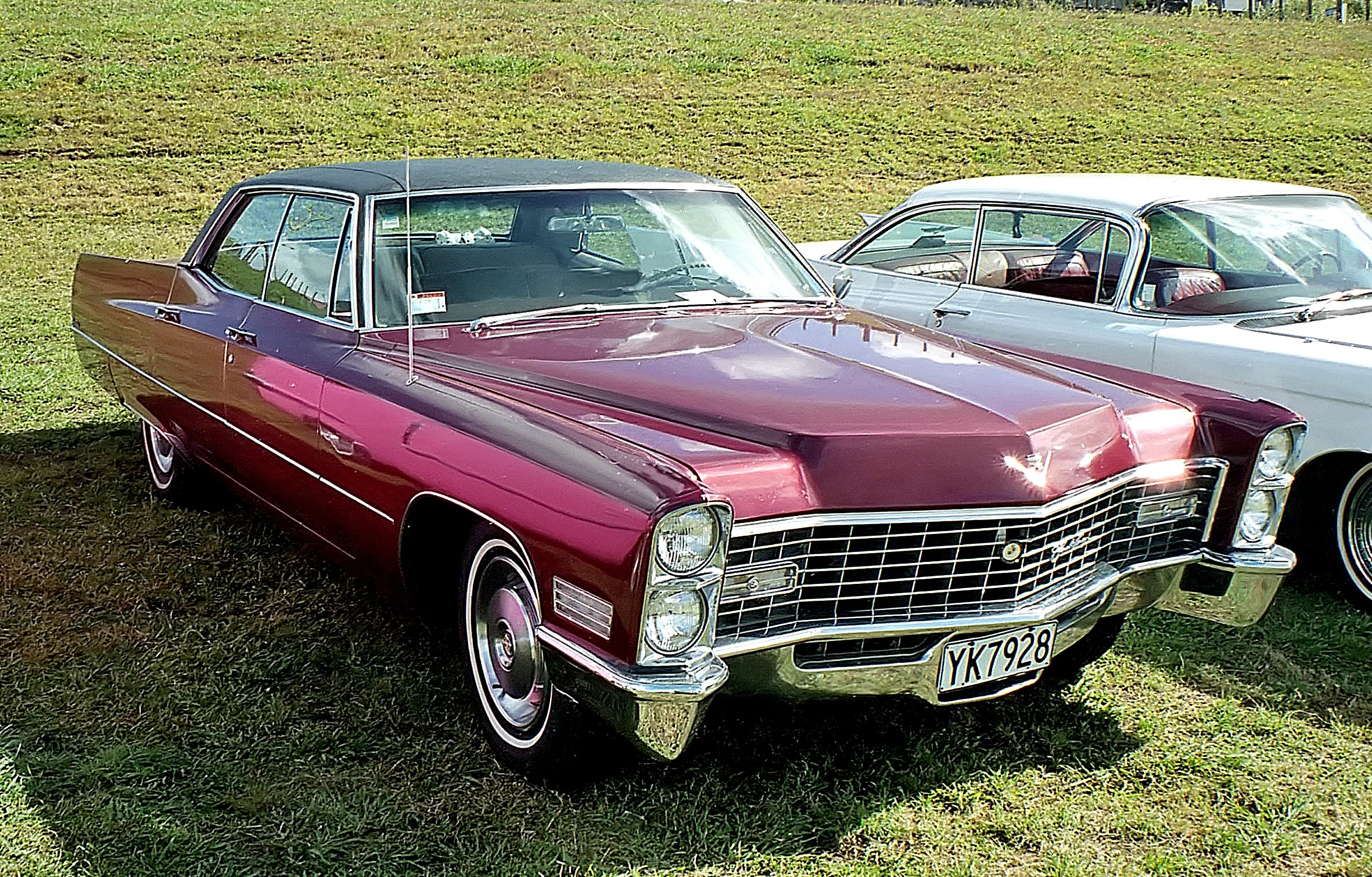 Pukekohe Swap Meet,South Auckland.New Zealand